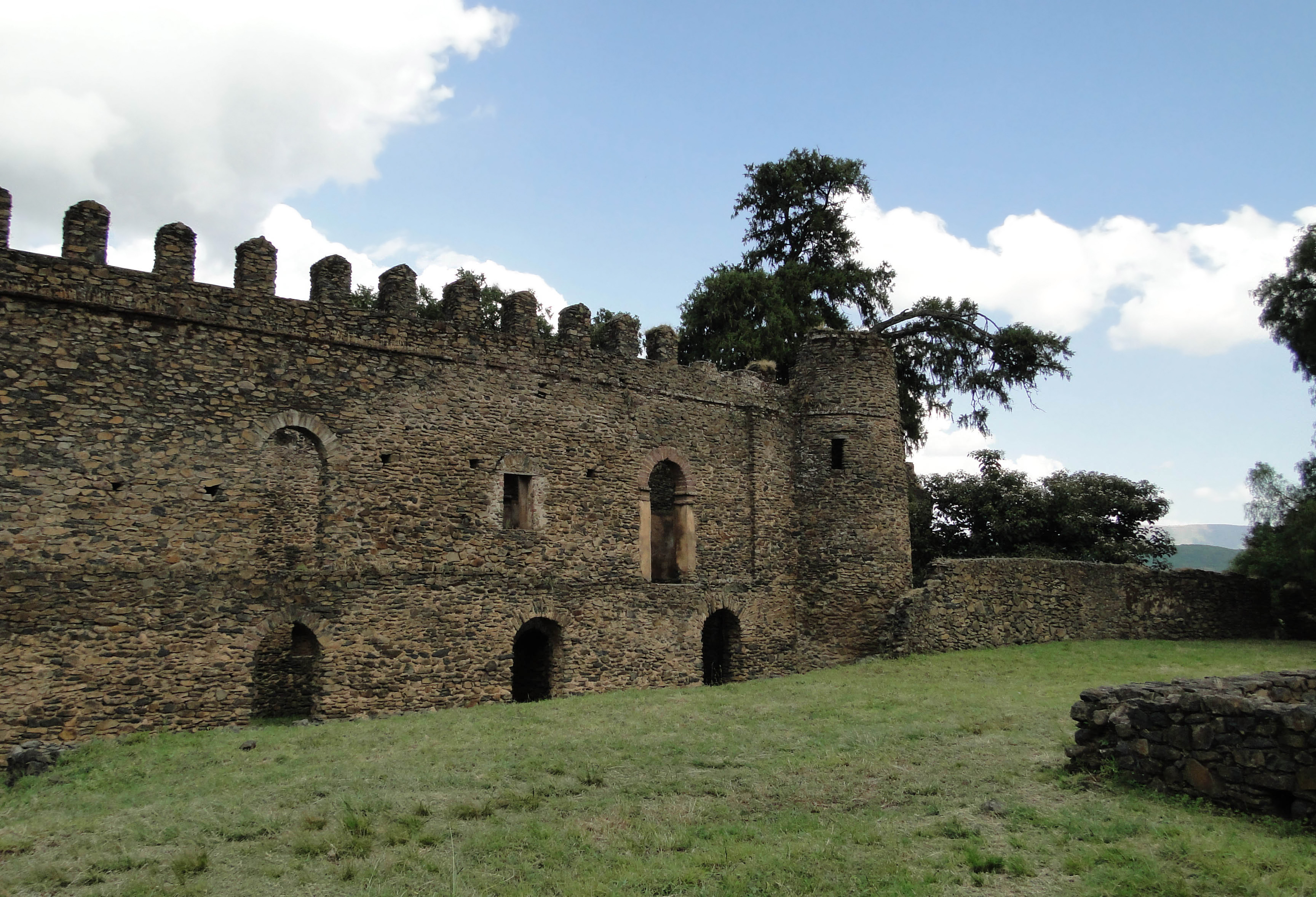 Dawit's Hall in the Fasil Ghebbi, Gondar, Ethiopia